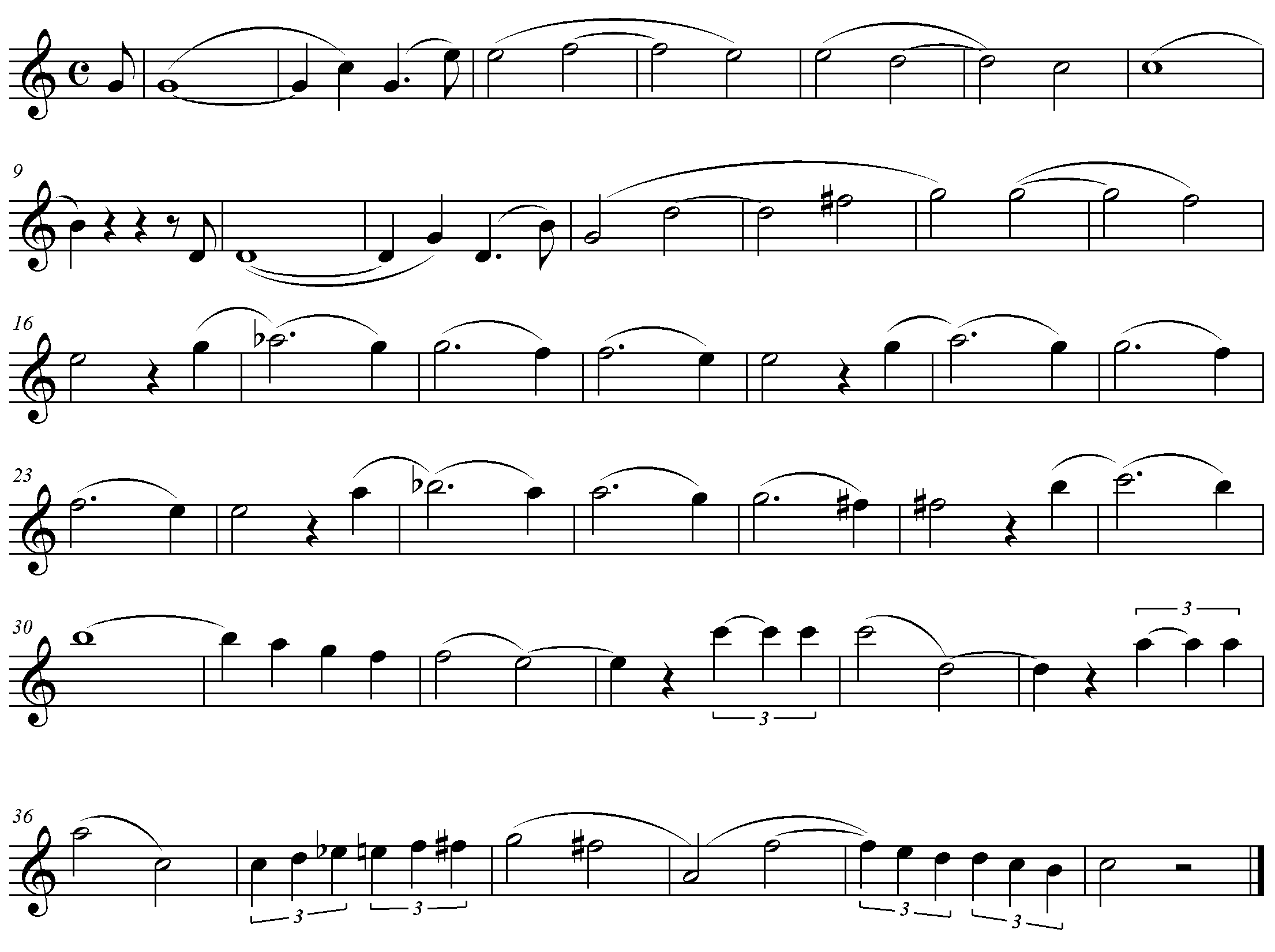 The Idée fixe theme from Hector Berlioz's Symphonie fantastique, Op. 14. 1830